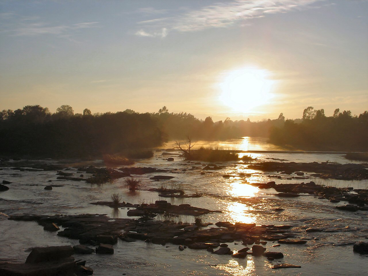 Sunrise over the Vaal River taken from Rocky Ridge in Parys.